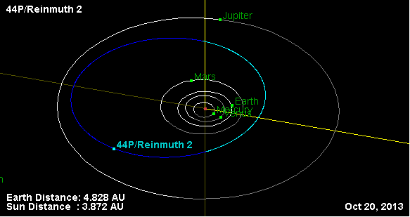 This diagram illustrates the orbit of the comet 44P/Reinmuth.